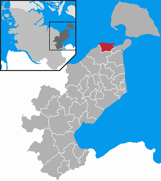 This map shows the area of the Stadt (town) Heiligenhafen in the Kreis (district) Ostholstein, Schleswig-Holstein, Germany.